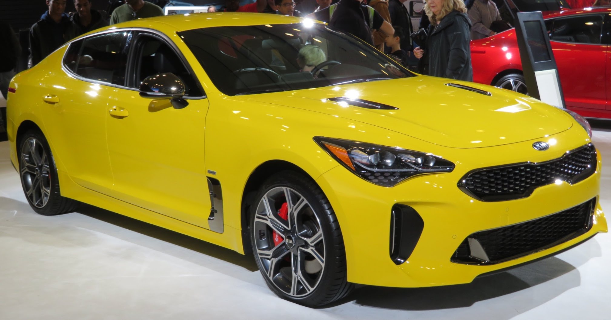 In New York International Auto Show, at Manhattan, New York